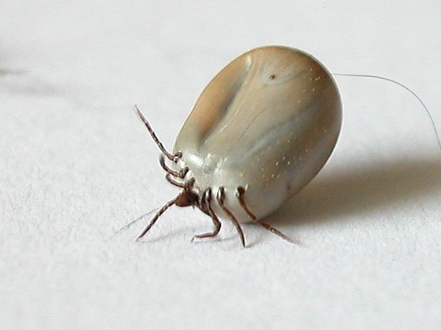 Cat tick - upside down/ventral view